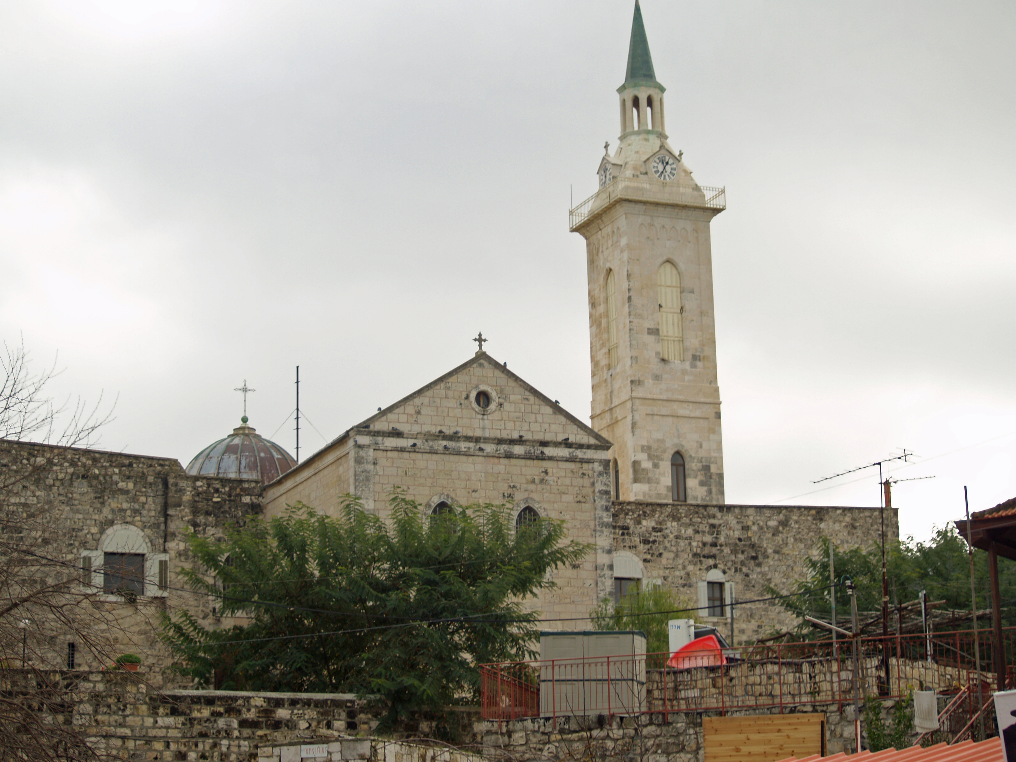 The Catholic church of St. John the Baptist at Ein Karem, Jerusalem, Israel.